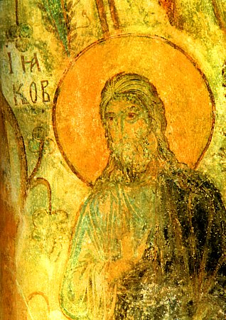 Apostle James, son of Alpheus. Saint James the Less, one of 12 apostles of Jesus Christ. 12th century fresco from Orthodox Church in the ancient city of Vladimir, Russia.